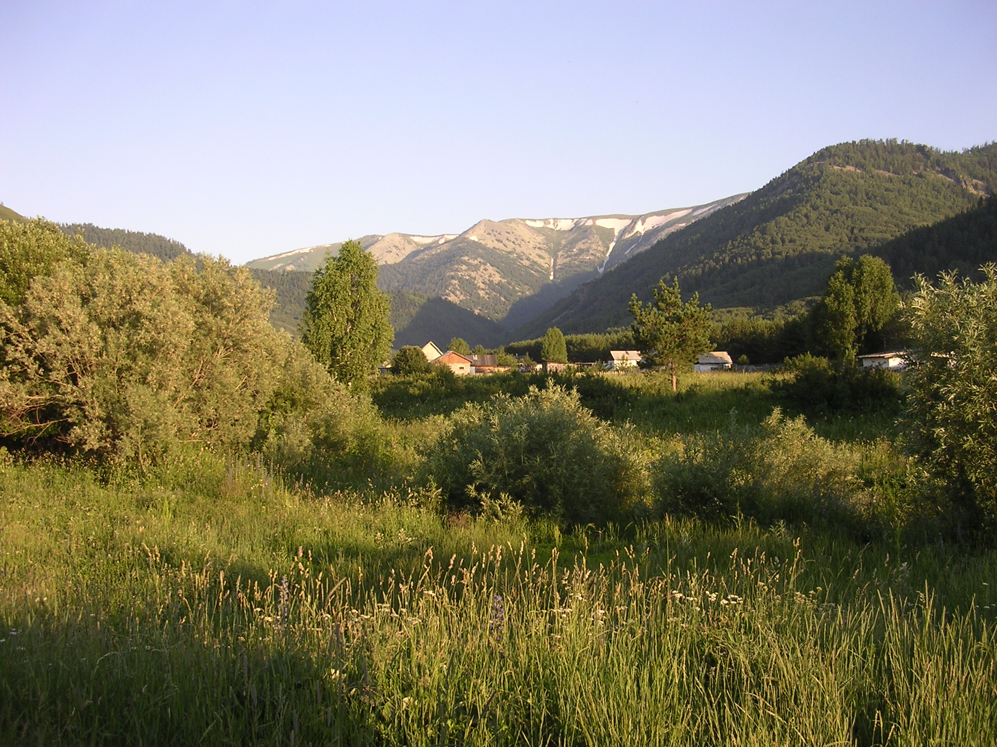 Summer residences at a gromatushinskogo canyon